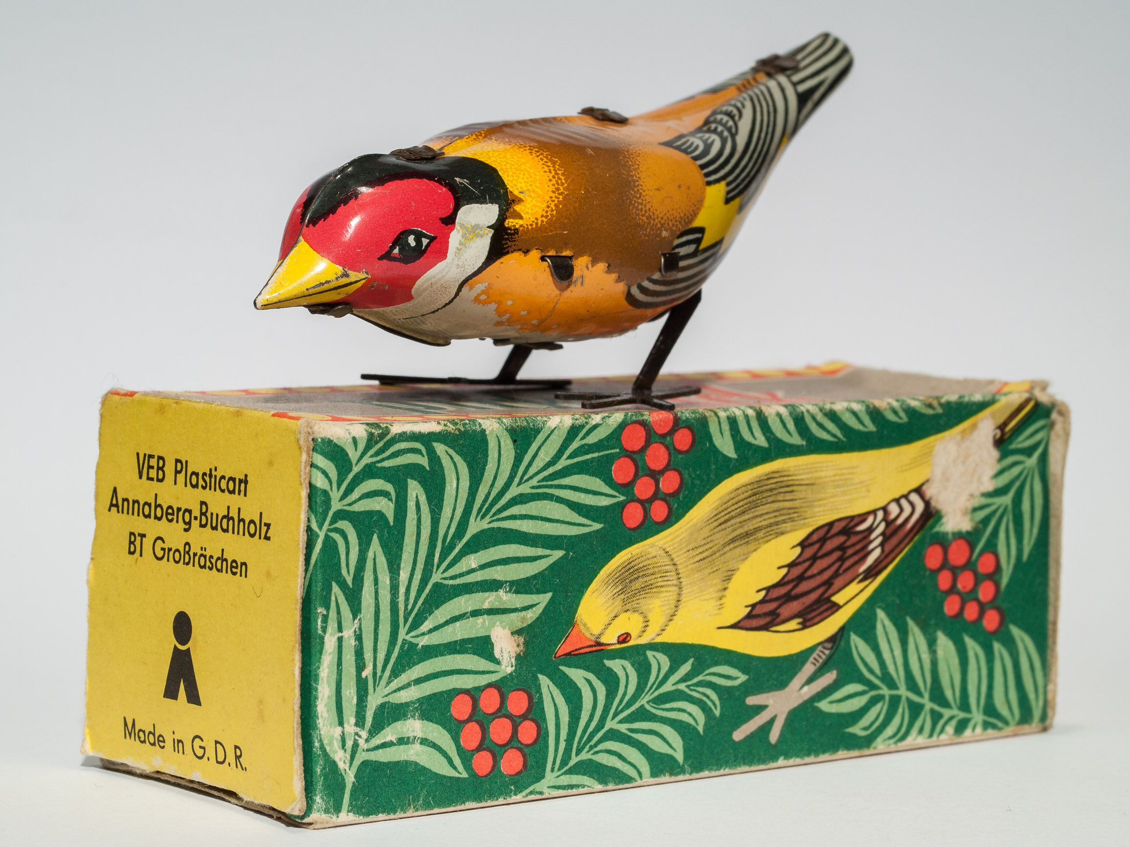 Metal toy bird made by VEB Plasticart in the G.D.R.